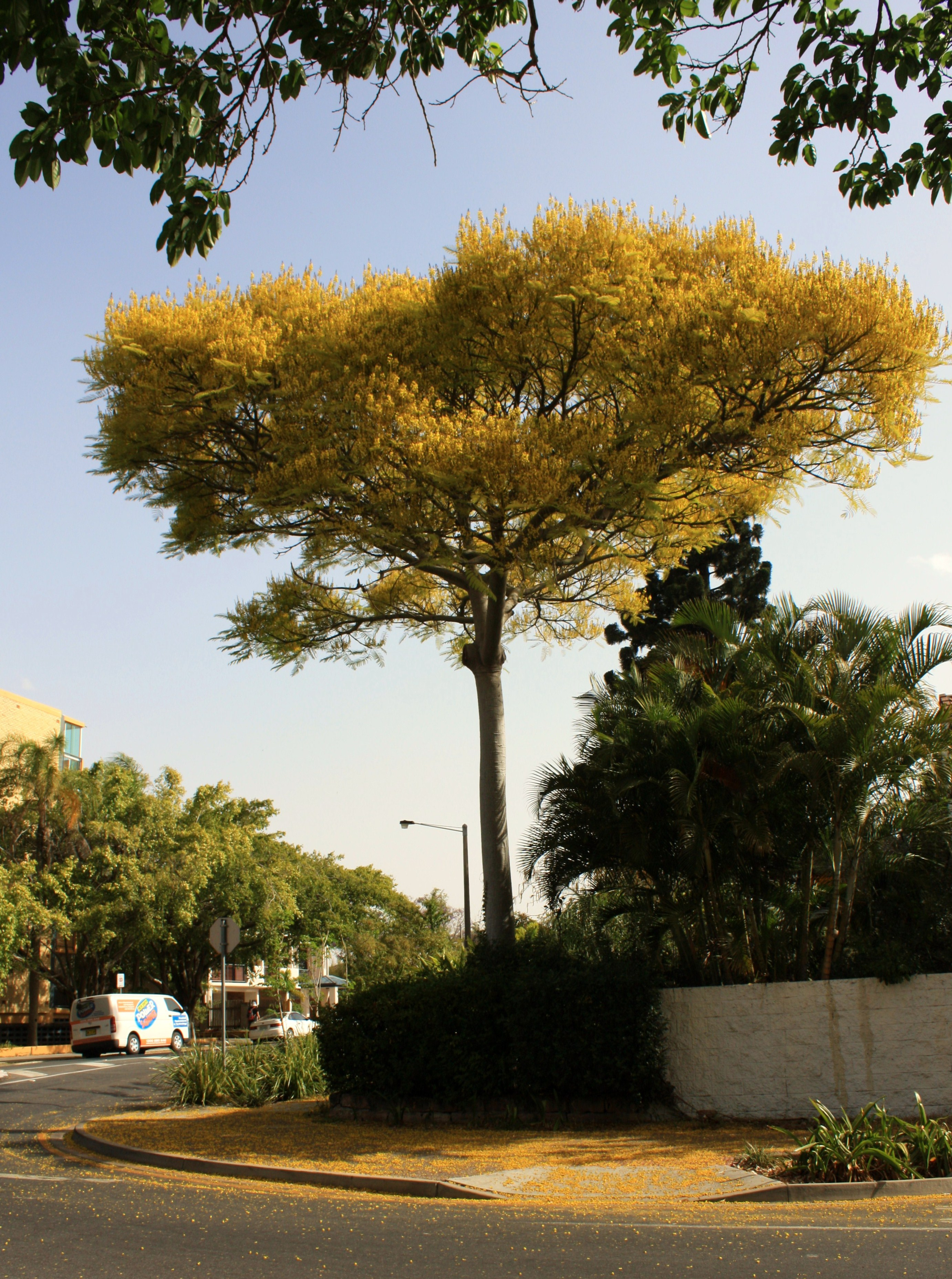 Tower tree or Guapuruvu Schizolobium parahyba